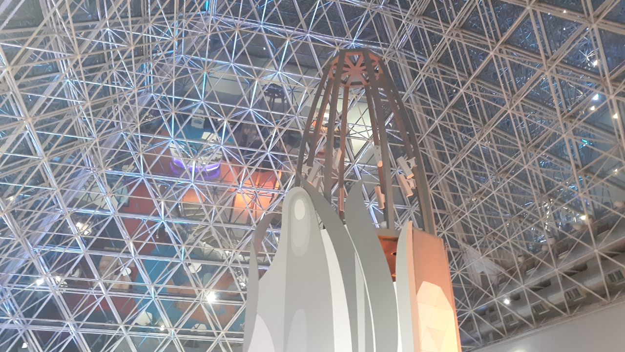 The interior of the glass pyramid above the Figment attraction at EPCOT